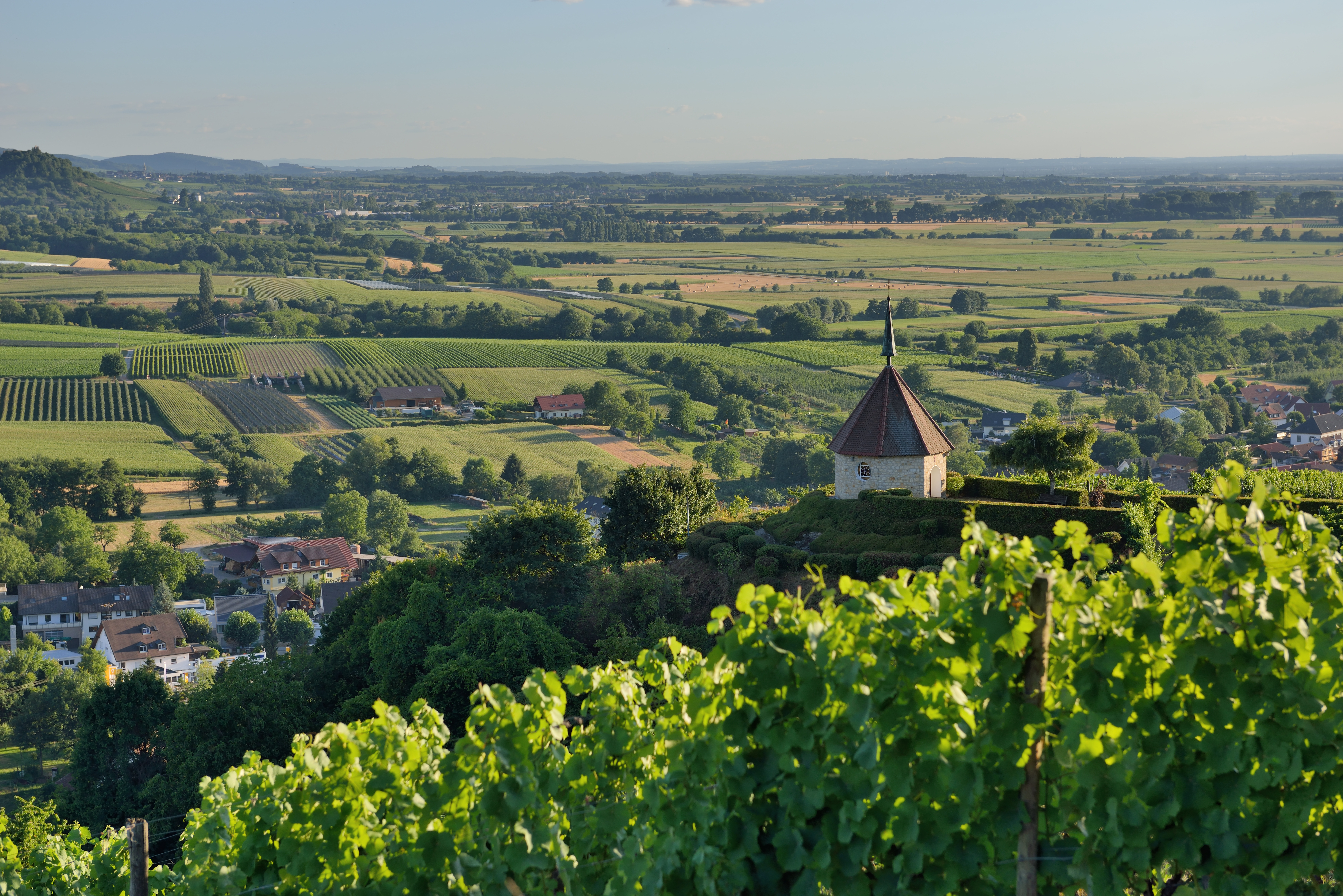 Ölberg chapel, Ehrenstetten